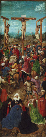 Jan van Eyck, The Crucifixion: The Last Judgment, ca. 1430 Left Panel